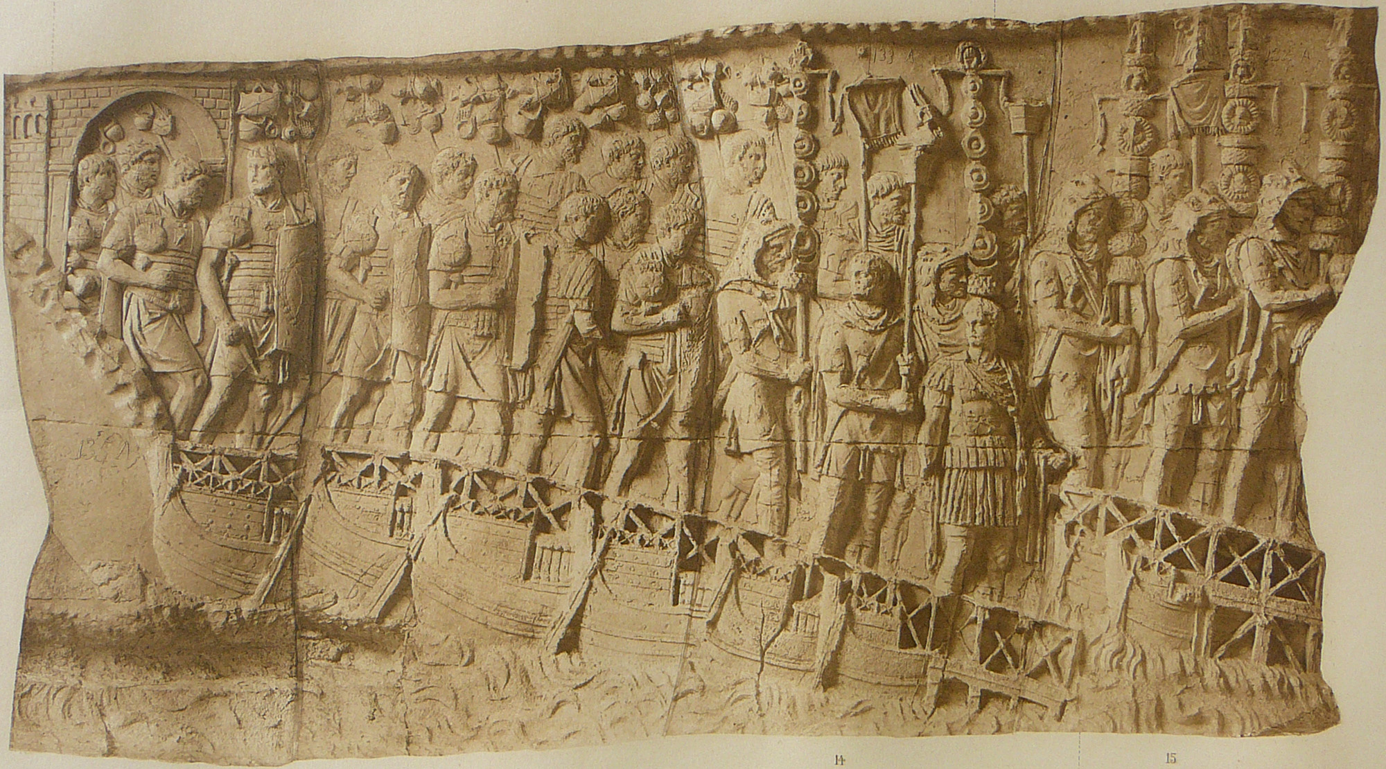 River-crossing by Roman troops (scene IV); Roman troops on the march (scene V)